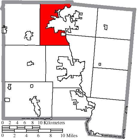 Map of the municipal and township boundaries of Miami County, Ohio, United States, as of the 2000 census, with the location of Washington Township highlighted. Township borders are shown only in unincorporated areas in order to differentiate incorporated and unincorporated areas more clearly.